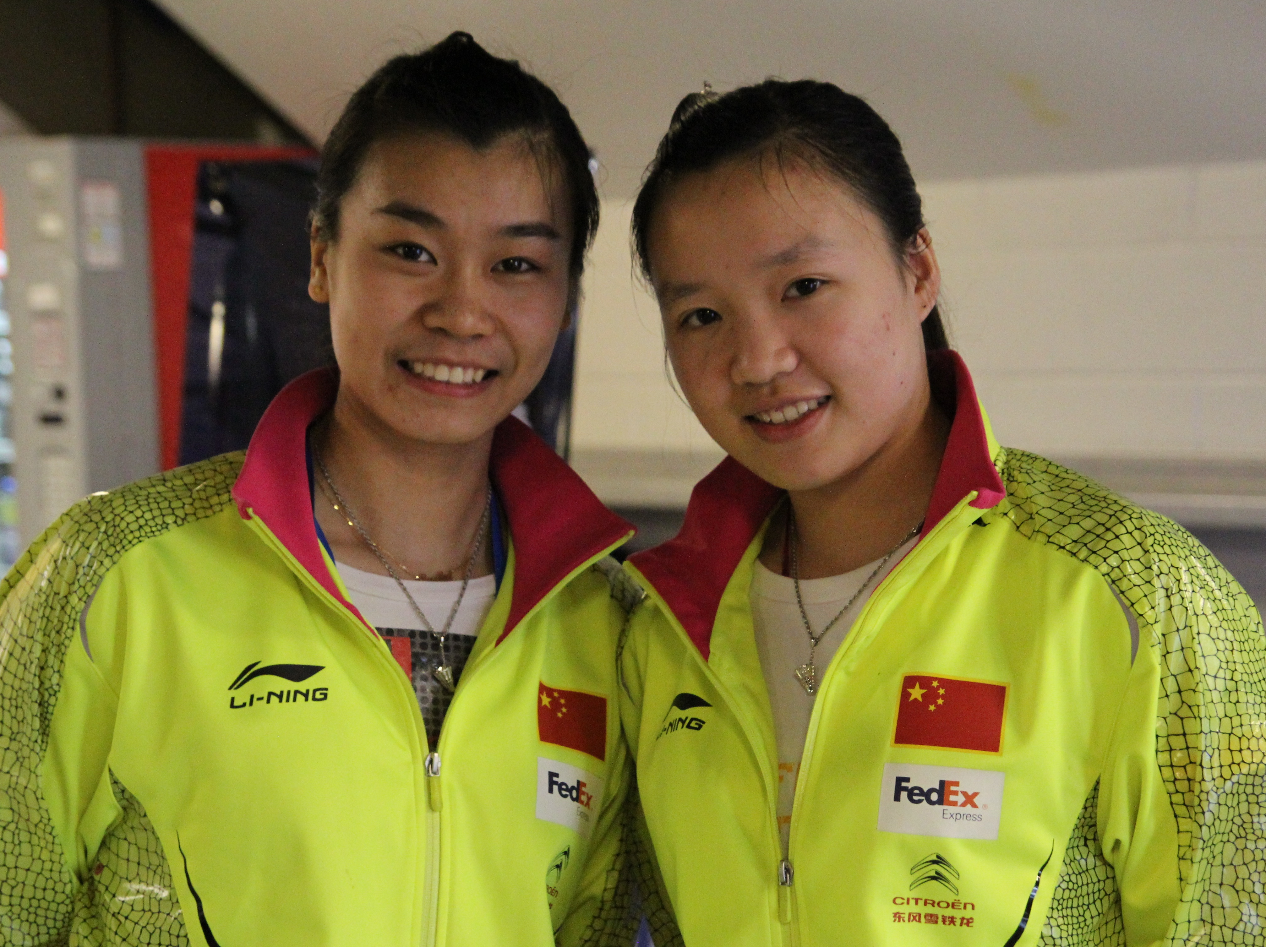 China's Xia Huan and Tang Jinhua wearing a Vinqui All-Star Shuttlecock Pendant.